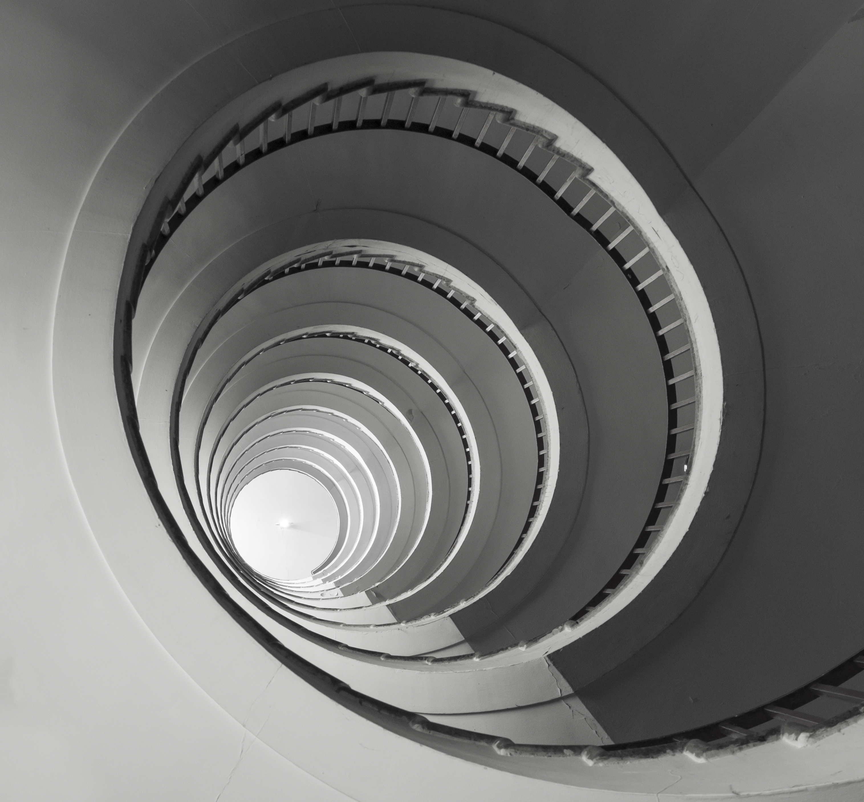 Spiral stairs seen from bottom to top (Nebotičnik building), Ljubljana, Slovenia. This photograph was taken with an Olympus E-P5